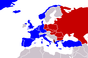 cropped & repainted from NATO_vs_Warsaw_(1949-1990).png [1] which is public domain